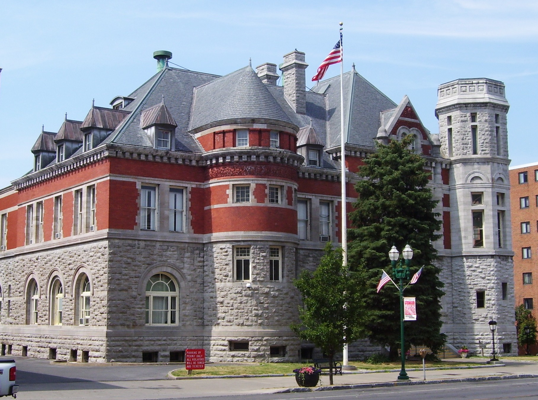 The Old Post Office and Courthouse is located at 157 Genessee Street in Auburn, New York. It was built in 1888–1890 and was designed by the Office of the Supervising Architect of the Treasury Department, Mifflin E. Bell, in the Richardsonian Romanesque style. It was expanded in 1913–1914, designed by James M. Elliot, and again in 1937. It serves as a courthouse of the United States District Court for the Northern District of New York. The building was surplussed by the Federal government in the 1980s and acquired by Cayuga County.